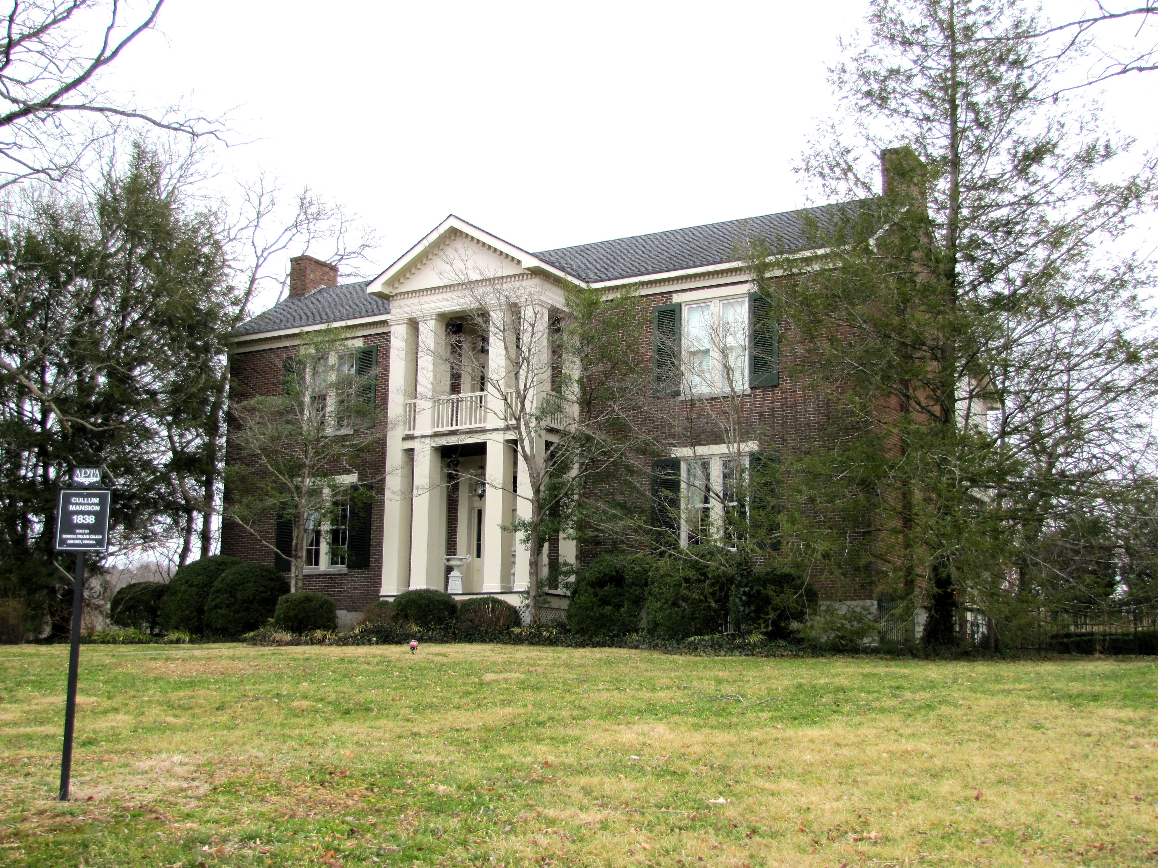 Cullum Mansion, built in 1838, in Carthage, Tennessee, USA.